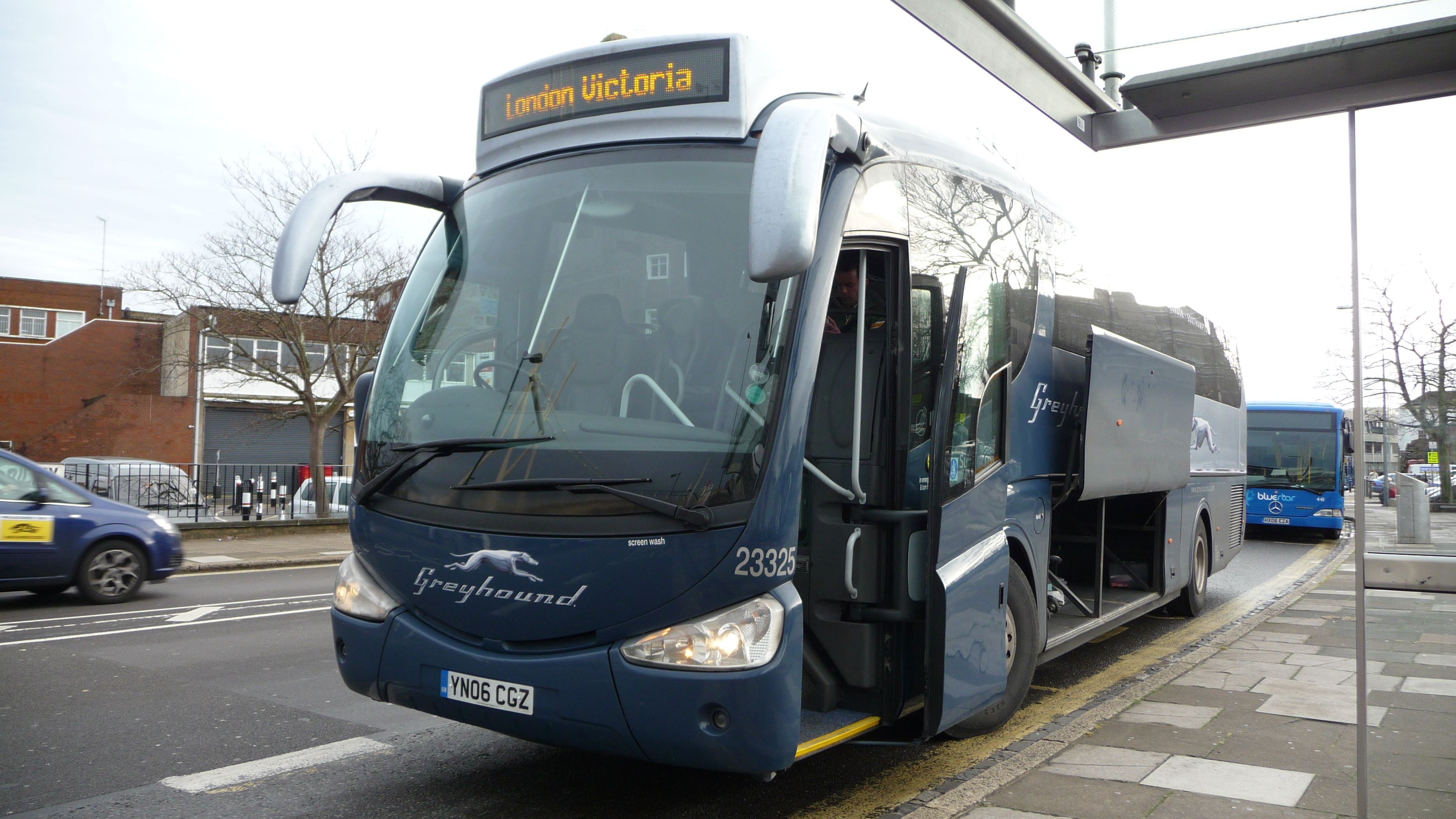 Greyhound UK 23325 Peggy Sue (YN06 CGZ), a Scania K114EB/Irizar PB, paused in Castle Way, Southampton, loading passengers before departing to London.